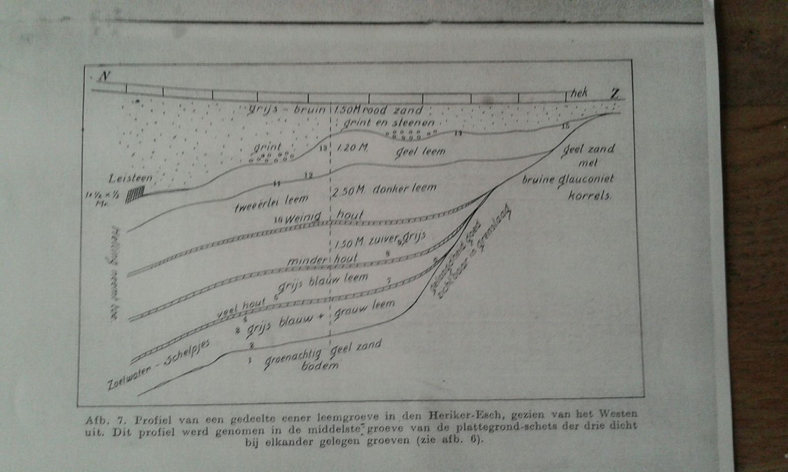 Doorsnede leemlaag in de Herikerberg, een foto van een tekening uit Dijkink, H. J. (z.d.) De bodem rond Markelo: Proeve eener geologische beschrijving van Markelo en omgeving. Wageningen: H. Veenman & Zonen.